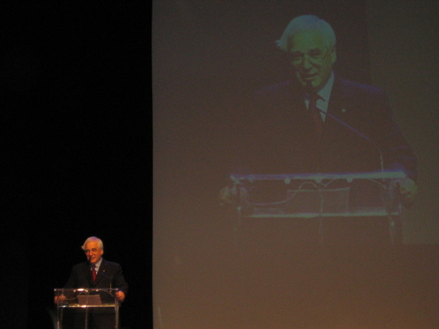 Photo of the Hon. James Bartleman, Lt-Governor of Ontario, speaking at the YPI/Leaders Today Event at the Carlu in Downtown Toronto